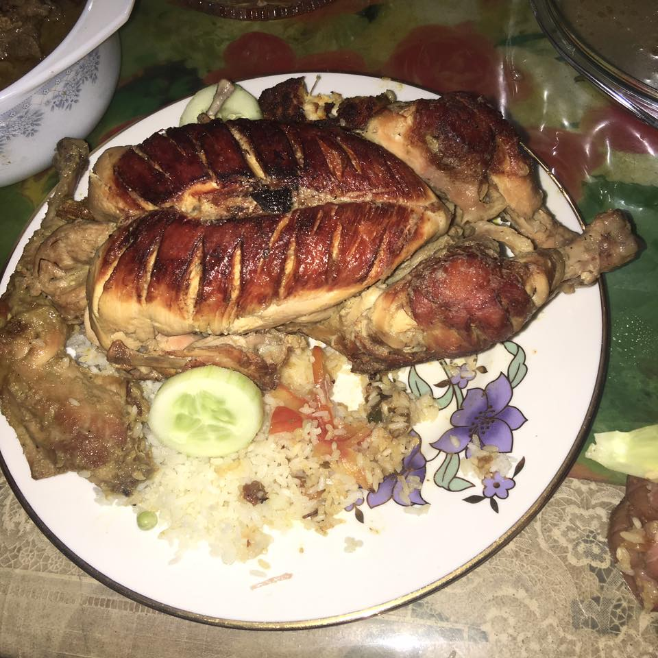 Traditional Chicken roast of Chittagong.